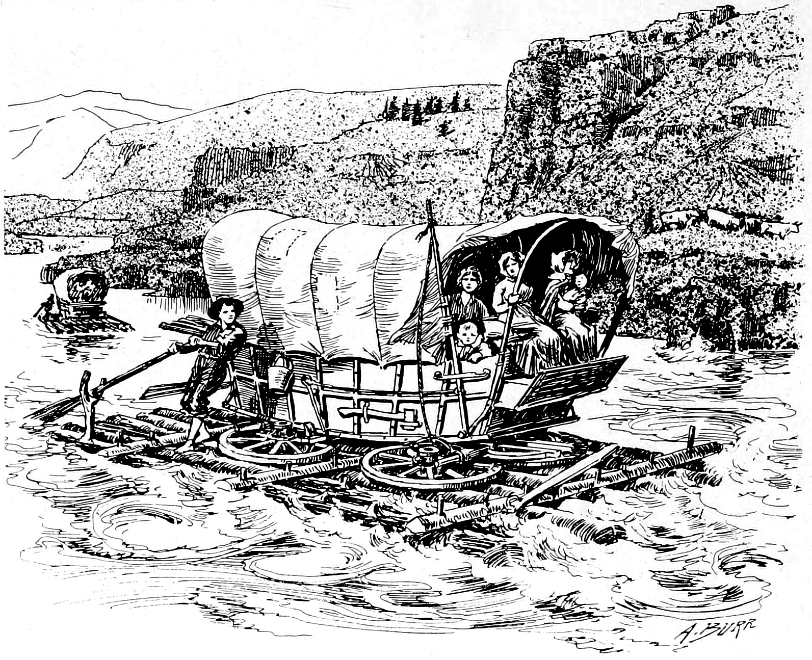 Image from Samuel Lancaster's 1916 book Columbia: America's Great Highway.